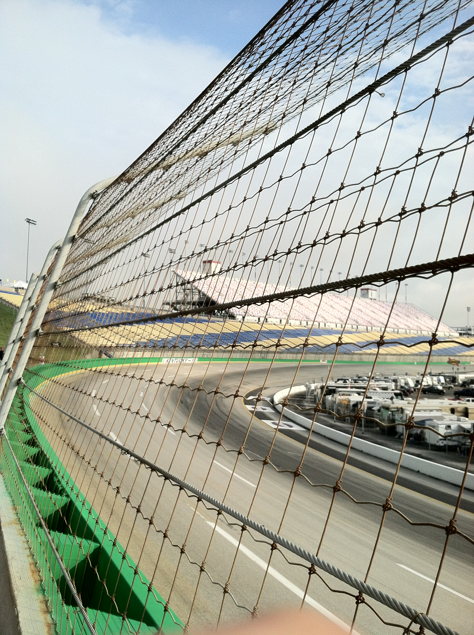 This is the early morning hours of race day at Kentucky Speedway.